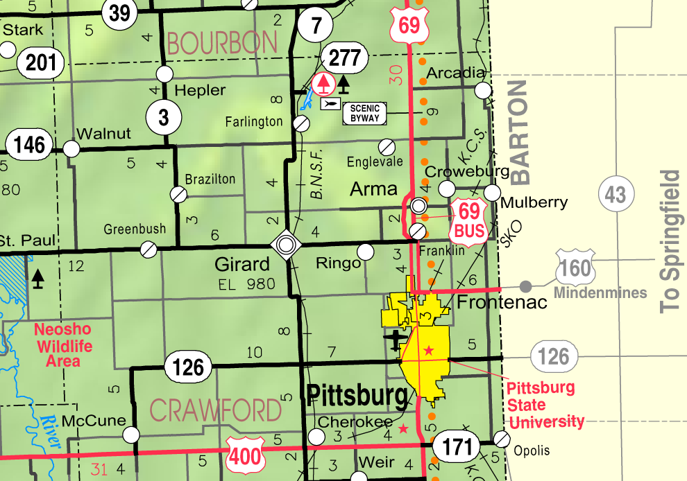 This map of Crawford County, Kansas, USA, is copied at a resolution of 300 pixels/inch from the original PDF file.